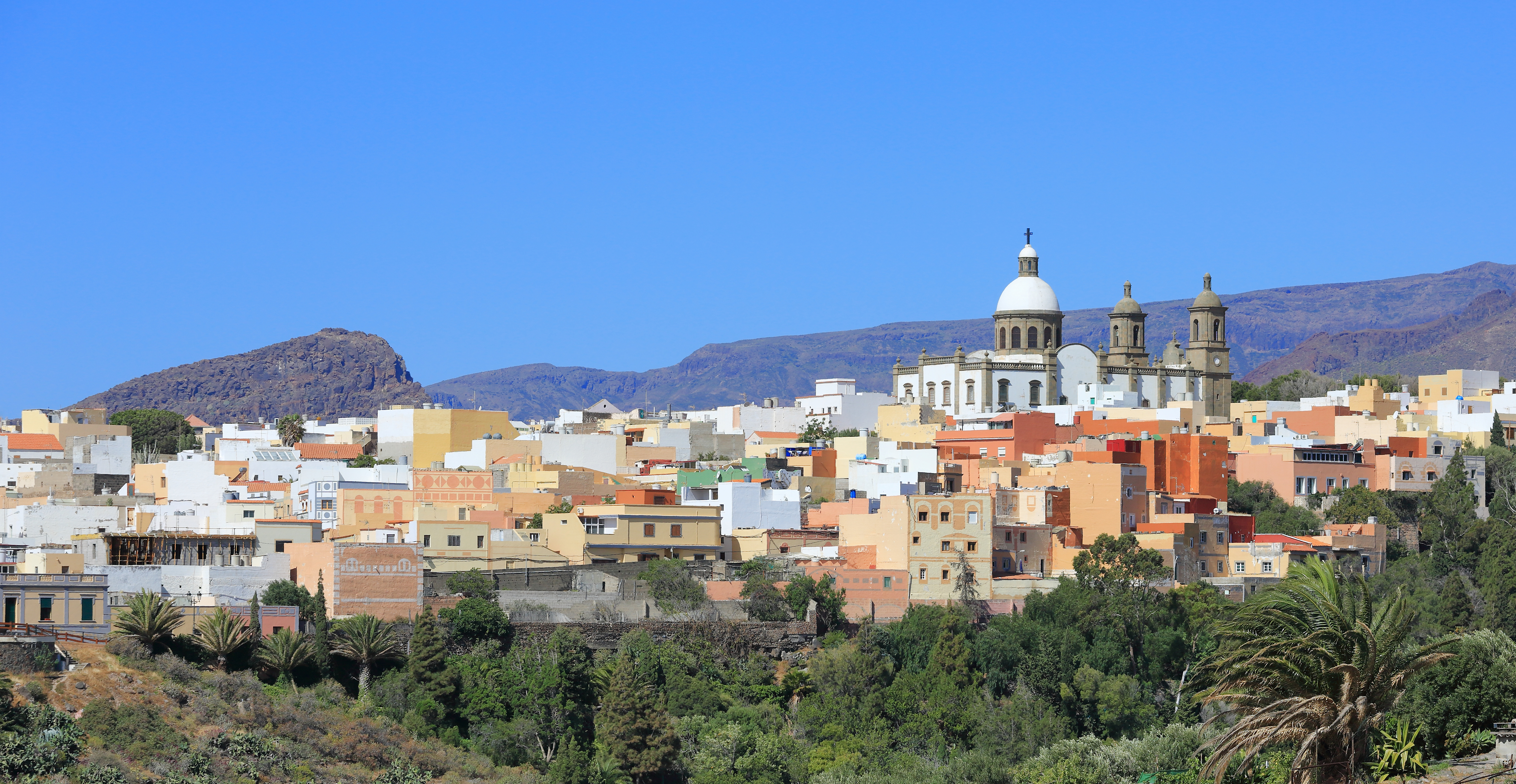 Panorama of Agüimes, Gran Canaria, as seen from NE